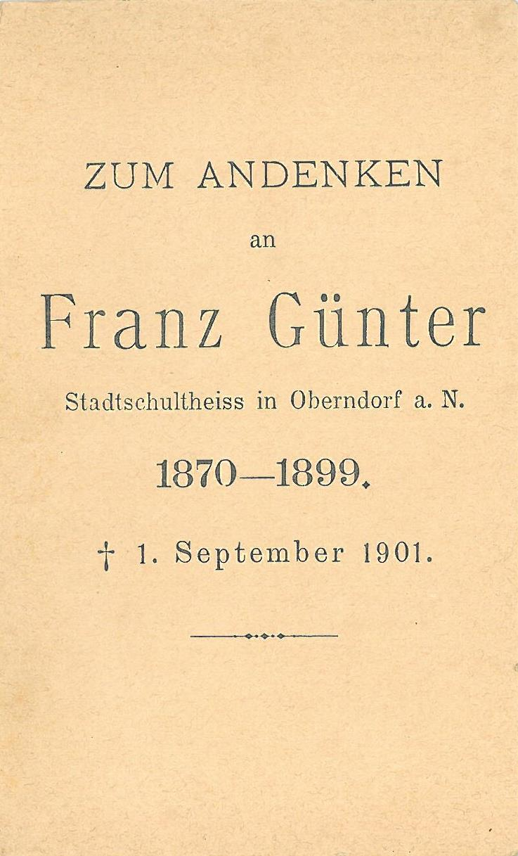 Franz Sales Günter (1830-1901), mayor of the city of Oberndorf am Neckar from 1870-1899